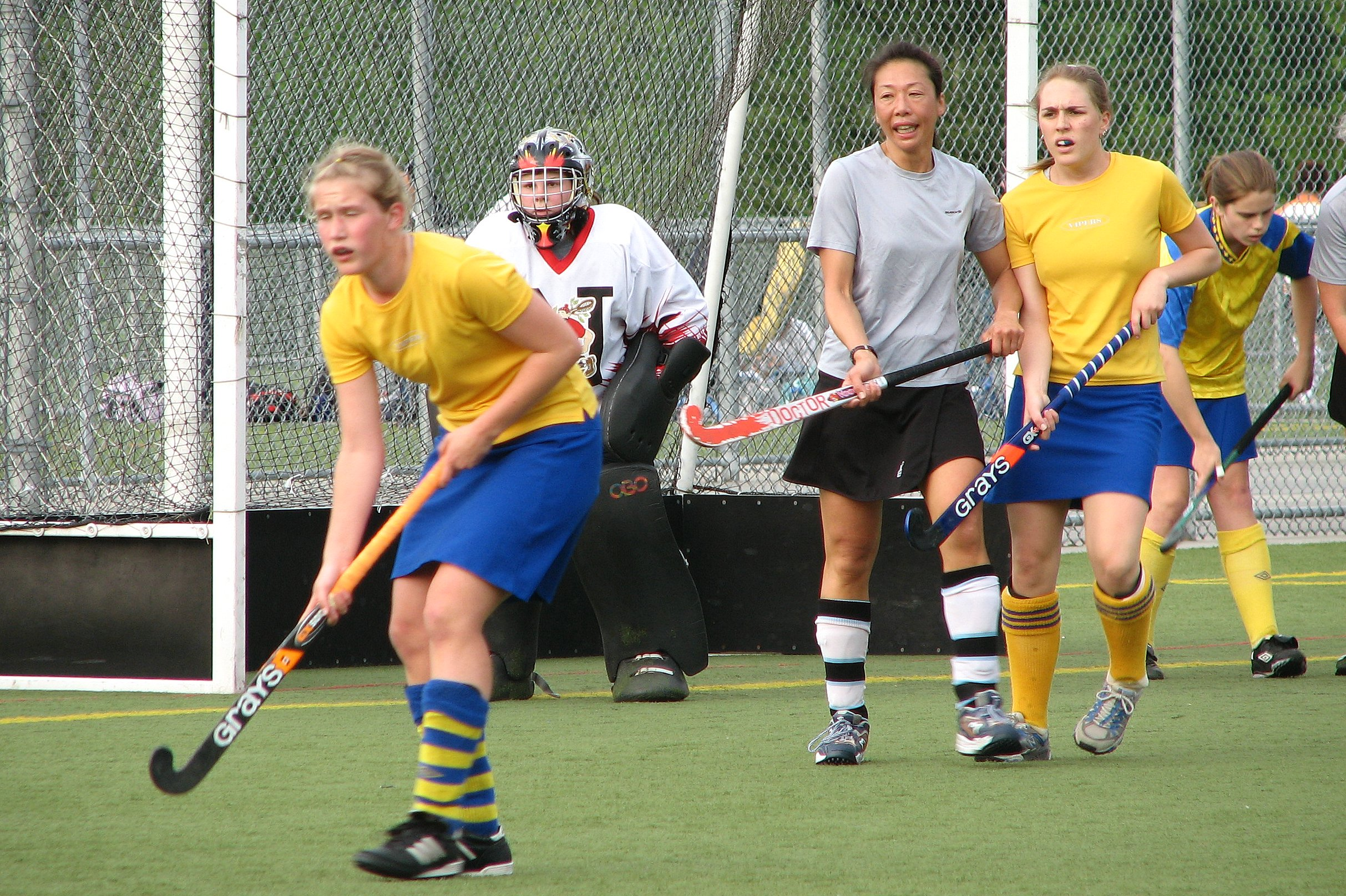 Field hockey goalie (goal keeper) directs traffic in shooting circle at Vancouver International Tournament (Vipers versus Jokers), Own Work, Author: frtzw906